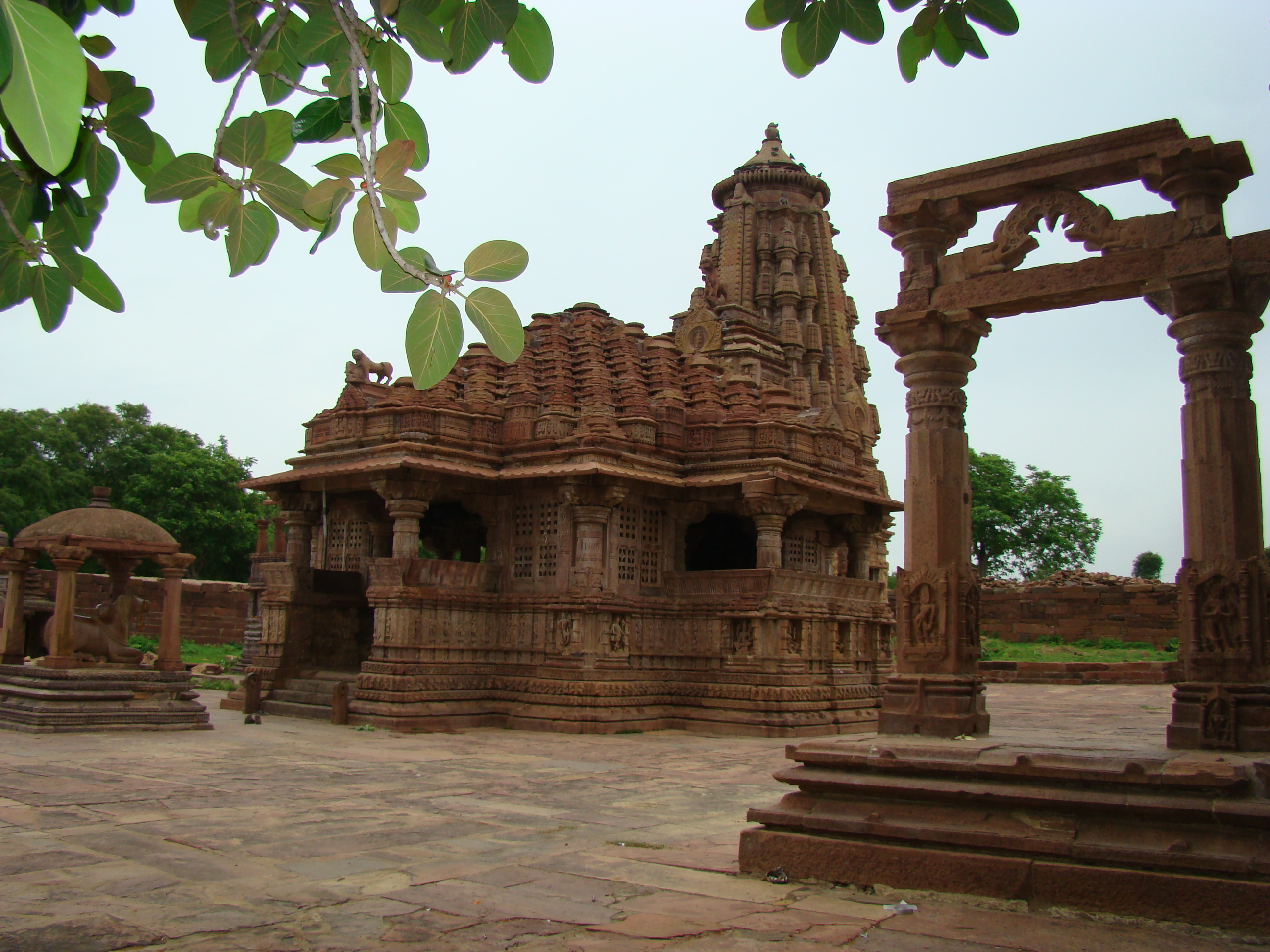 Mahanaleswar temple and toran made by local red stone